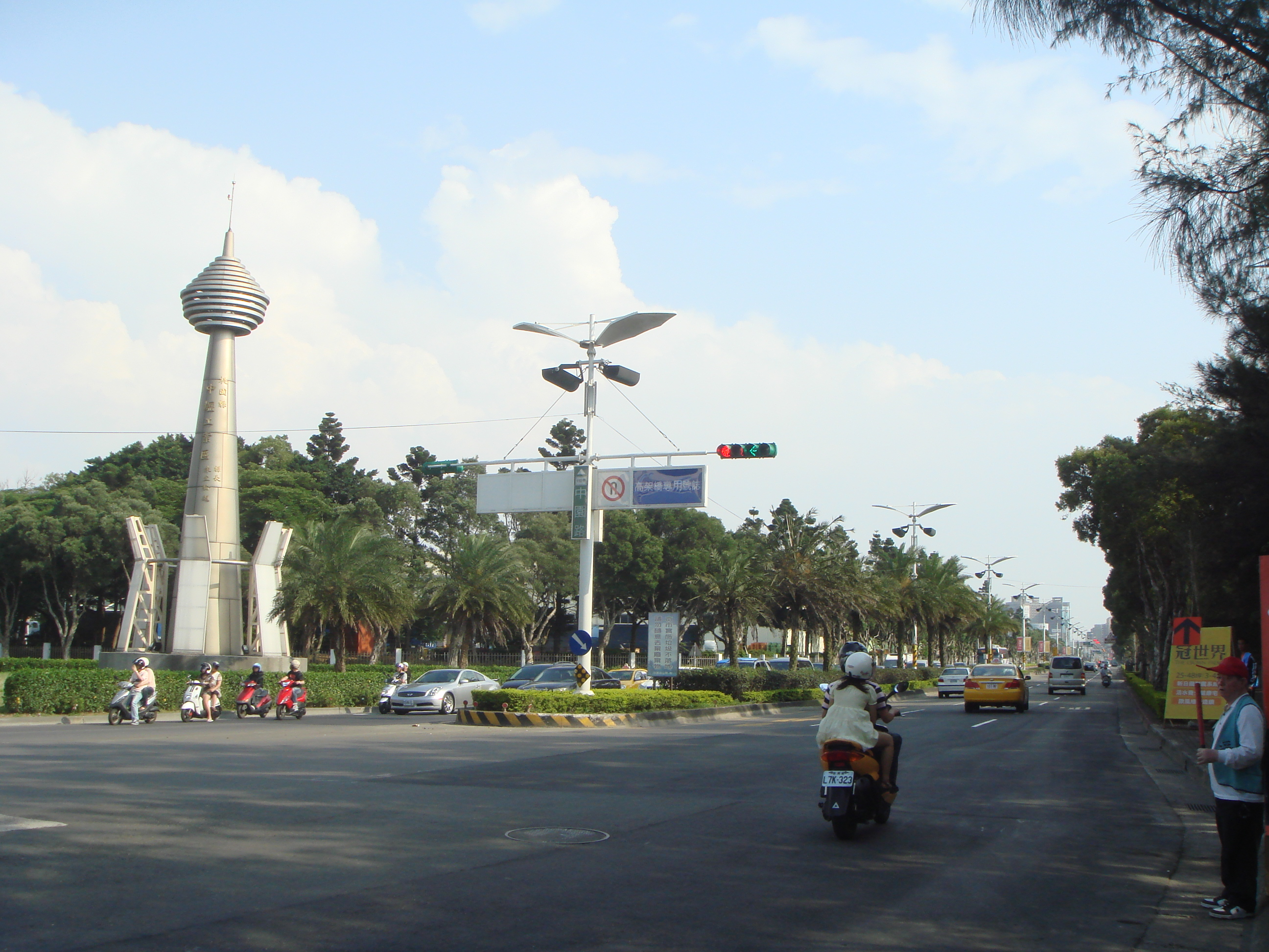 A landmark located in ZhongYuan JiLin intersection, Zhongli City, Taoyuan County. 中文（台灣）: 桃園縣中壢市中園路與吉林路口，內壢交流道往中壢工業區的入口意象建築。